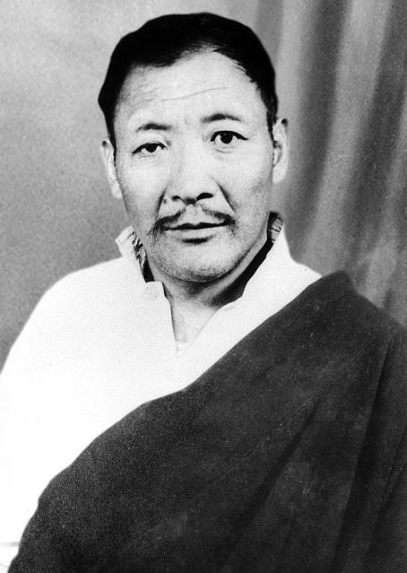 Andrutsang Gompo Tashi